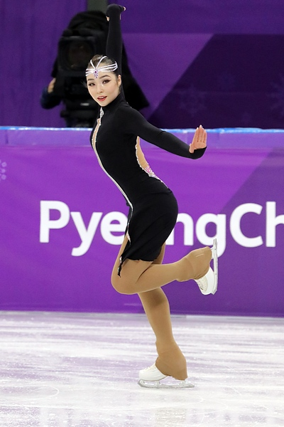 Aiza Mambekova at the 2018 Winter Olympic Games - Short program